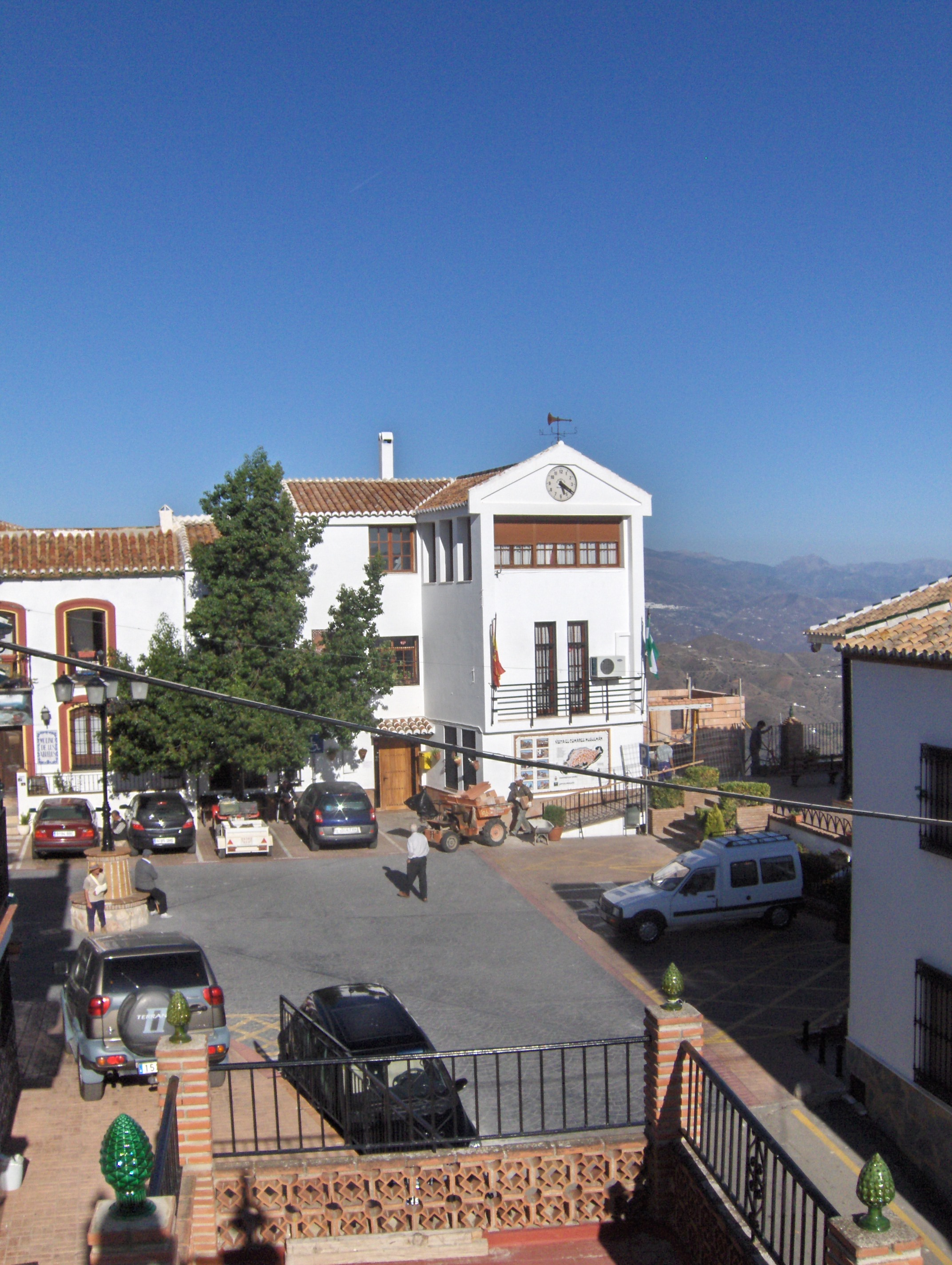 COmares town hall, Málaga, SPain